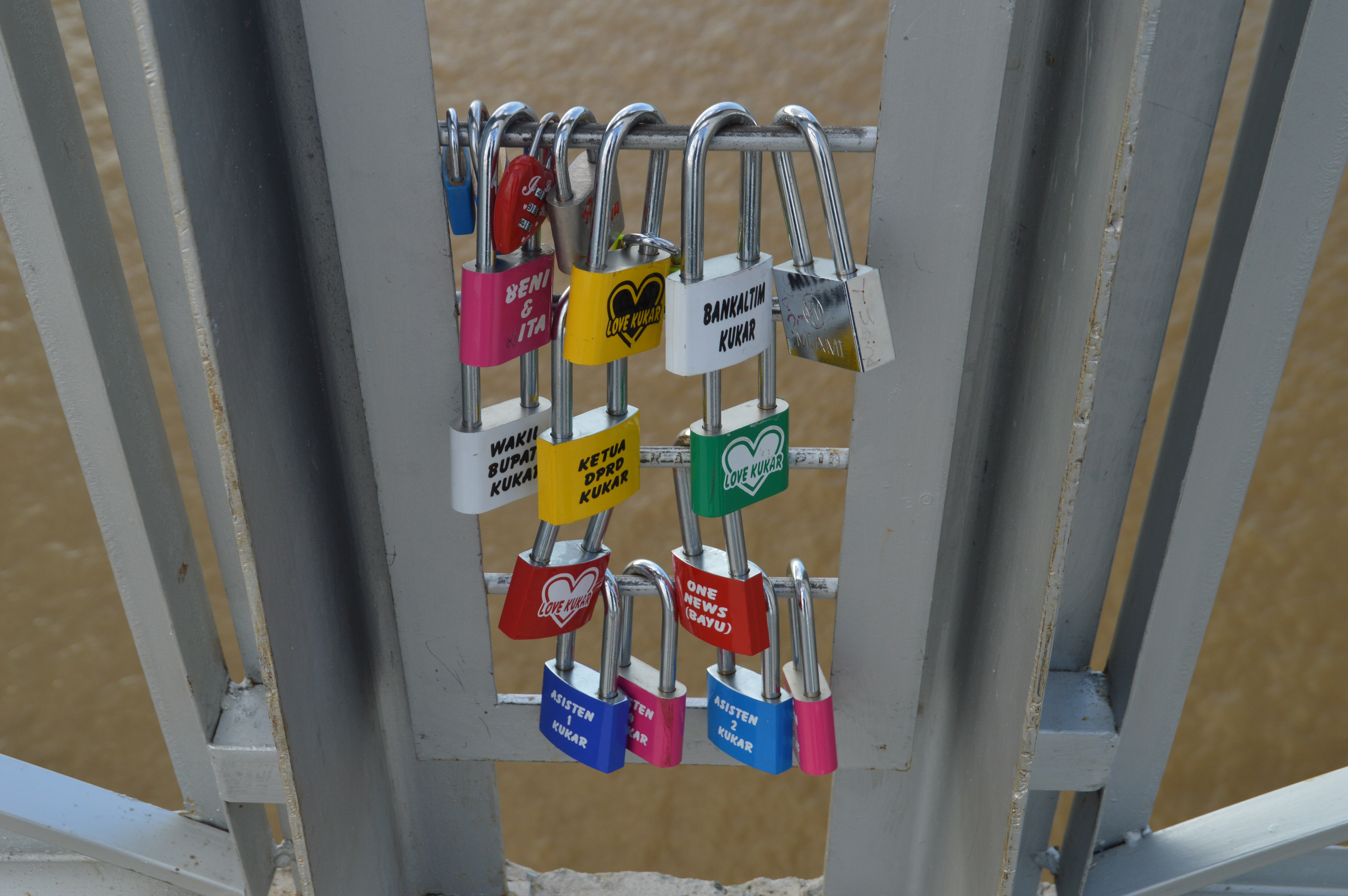 Love padlock on Repo-Repo Bridge, Kutai Kartanegara Regency, East Kalimantan.